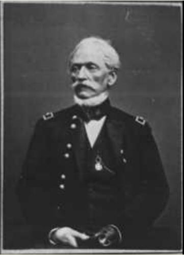 Brevet Brigadier Generals in Blue